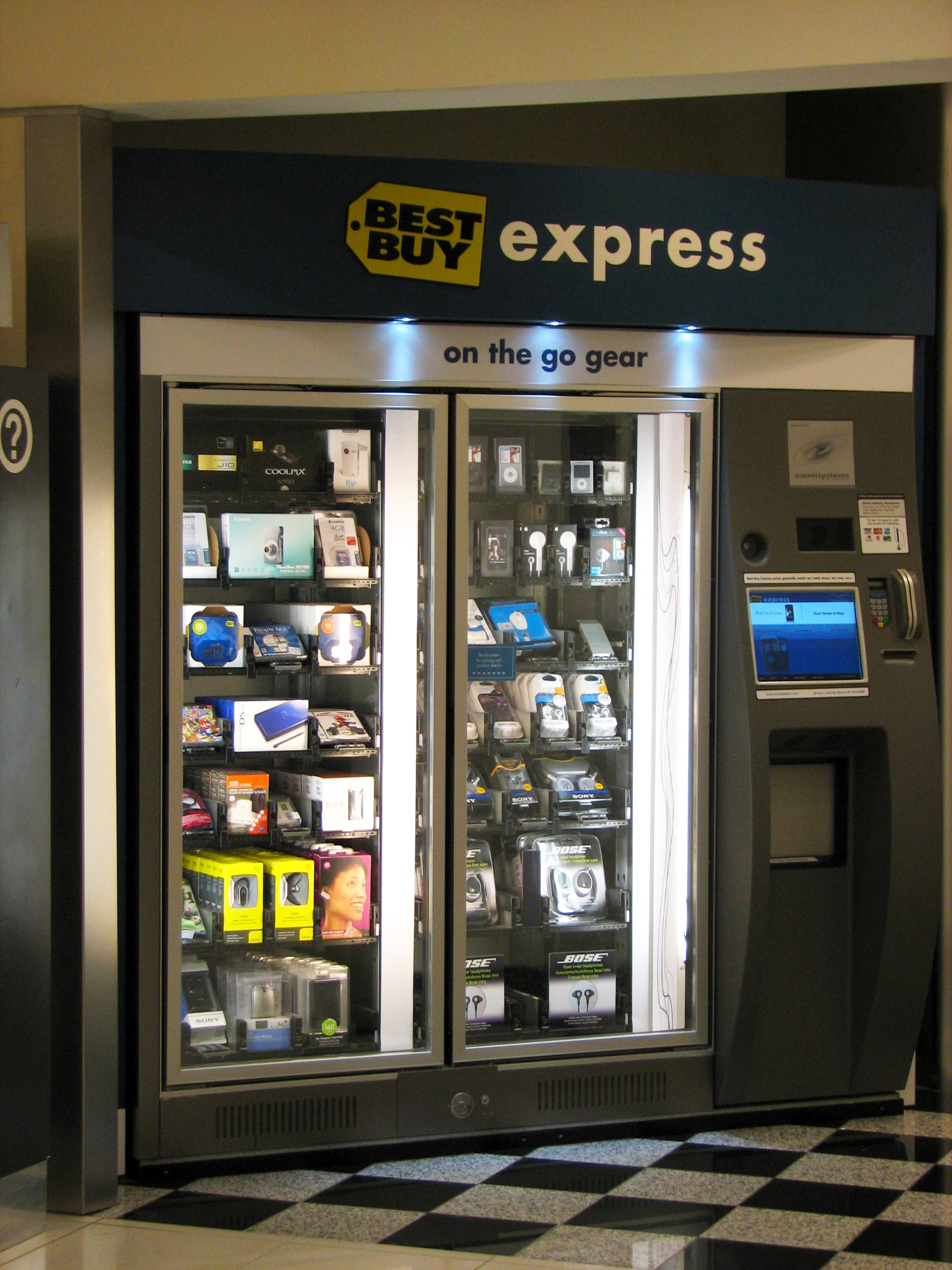 Best Buy Express vending machine, in Atlanta airport, Georgia